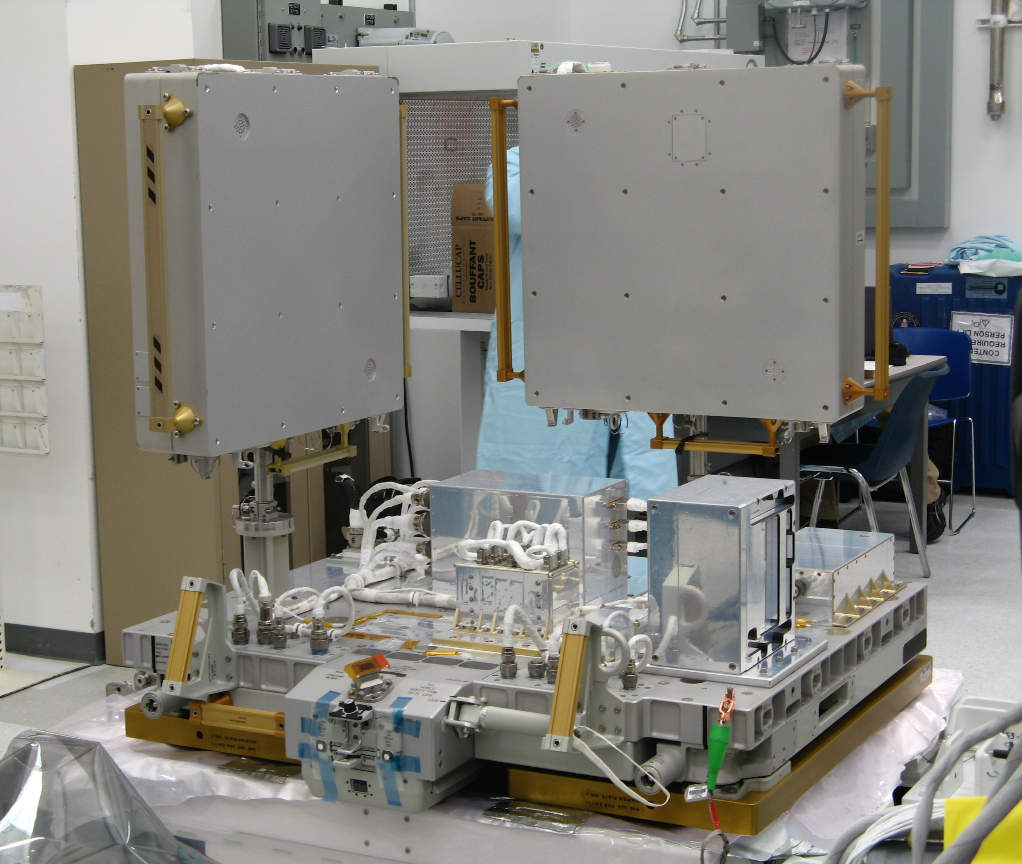 This image shows MISSE-7 prior to launch with the two Passive Experiment Containers (PECs) mounted on the ExPA platform.